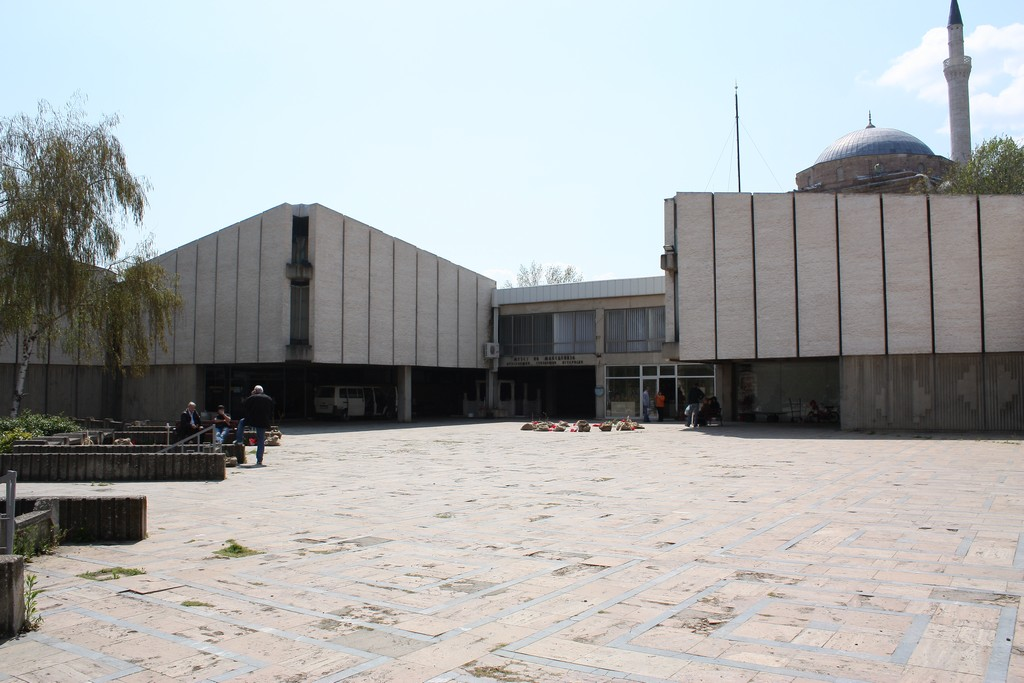 Museum of Macedonia_1 An artefact in the Ethnological section of the Museum of Macedonia, Skopje.